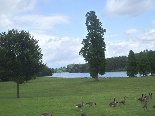 Clumber Park, Notts. Note the geese. On my last visit some seven years earlier there were few of these large birds, but now, as elsewhere they have virtually invaded the place.